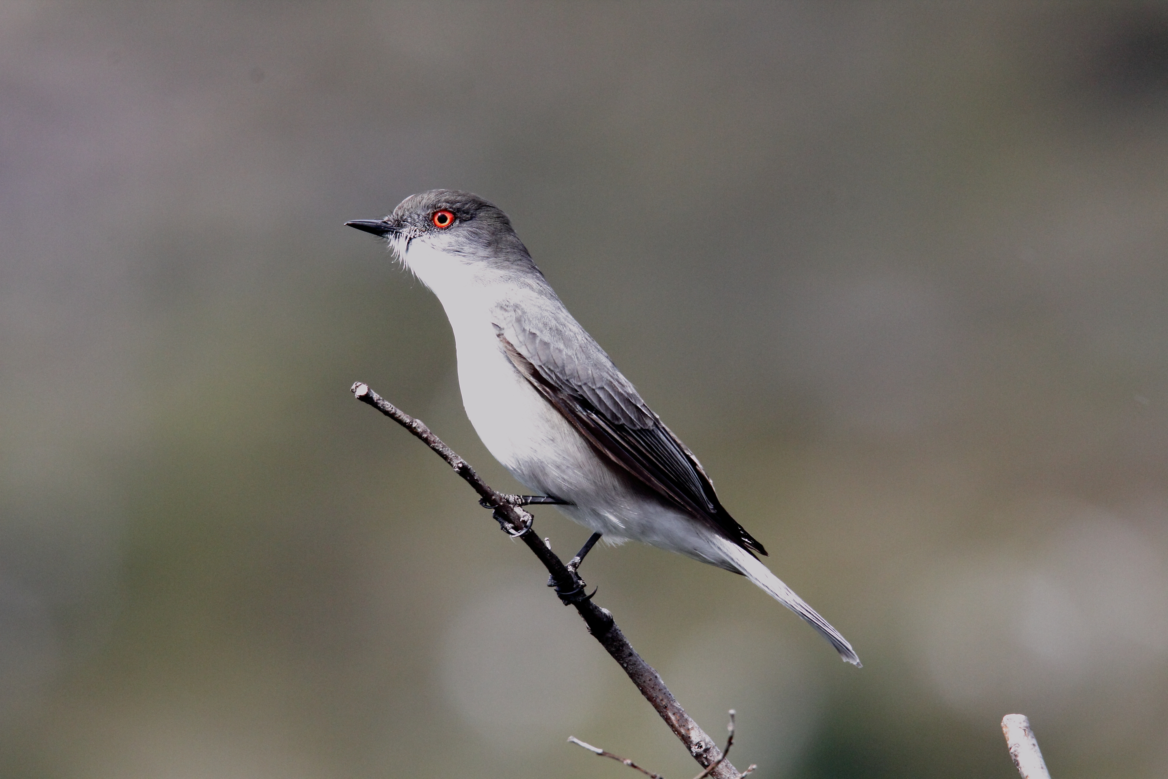 Fire-eyed Diucon (Xolmis pyrope)